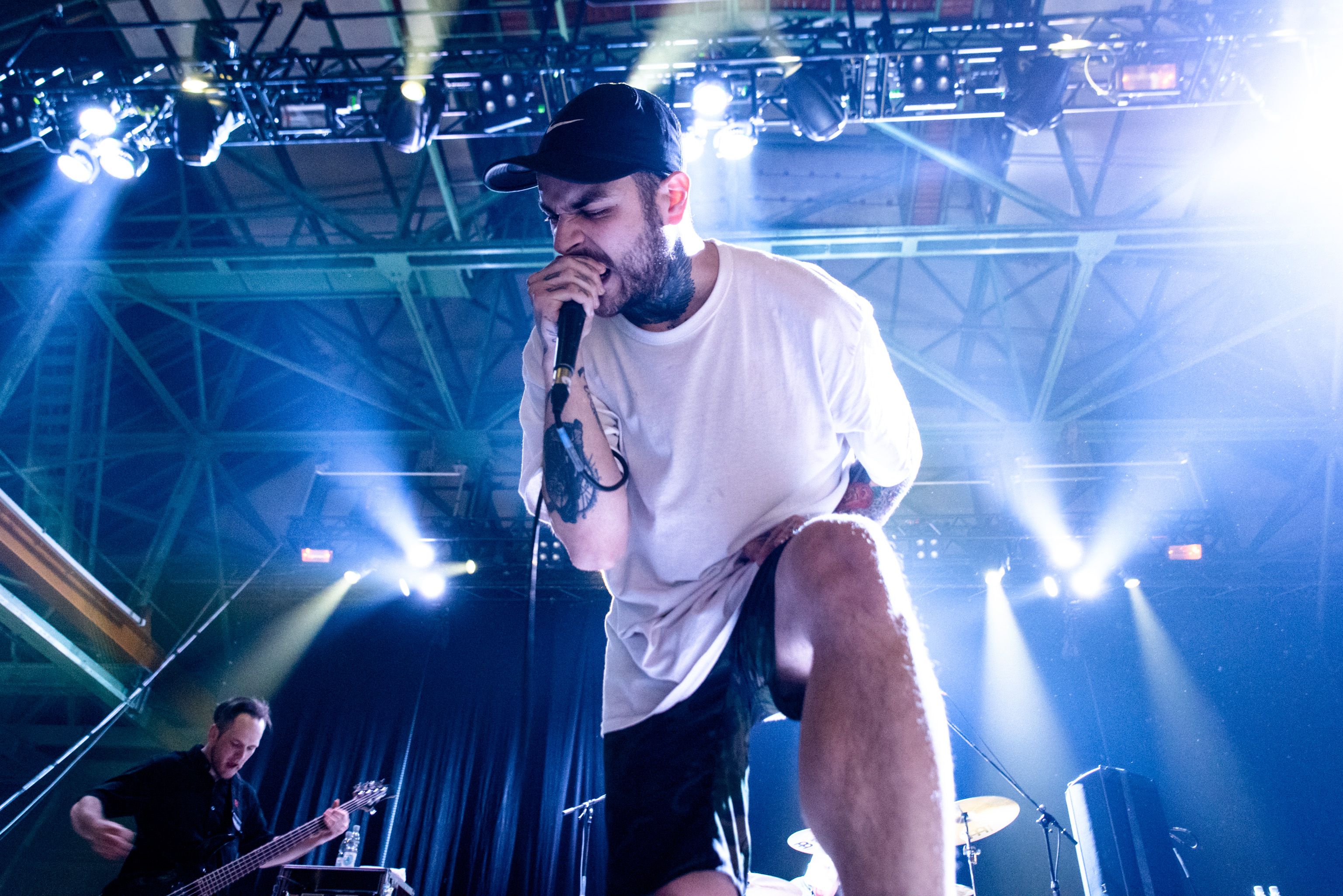 Emmure Live @ Impericon 2016 Munich